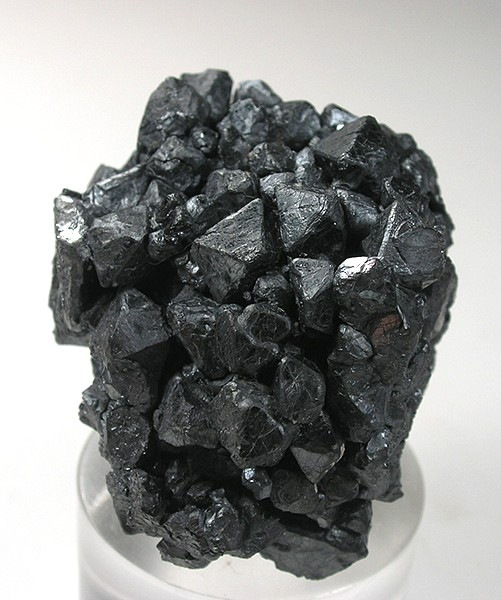 Franklinite Locality: Sterling Mine, Sterling Hill, Ogdensburg, Franklin Mining District, Sussex County, New Jersey, USA (Locality at ) An unusually rich, solid cluster of intergrown franklinite crystals! Old, desirable material! 5.4 x 4.1 x 3.3 cm